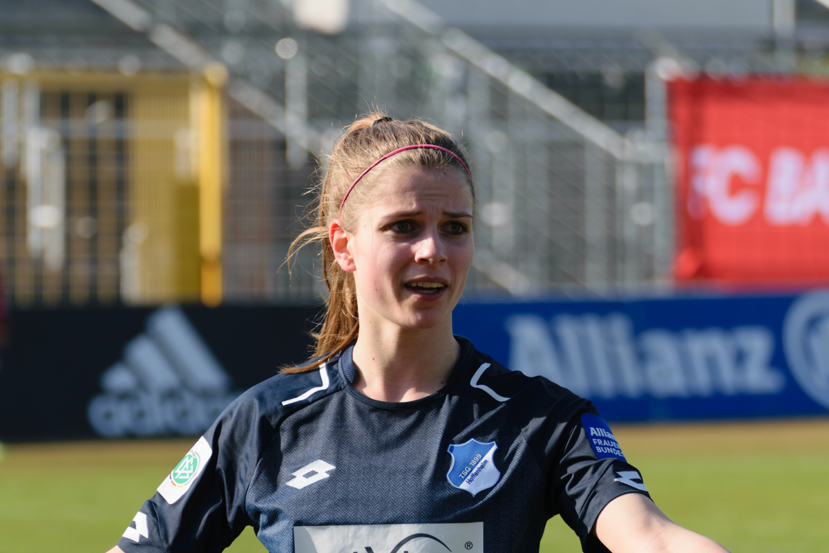 Tabea Waßmuth at FC Bayern vs TSG Hoffenheim